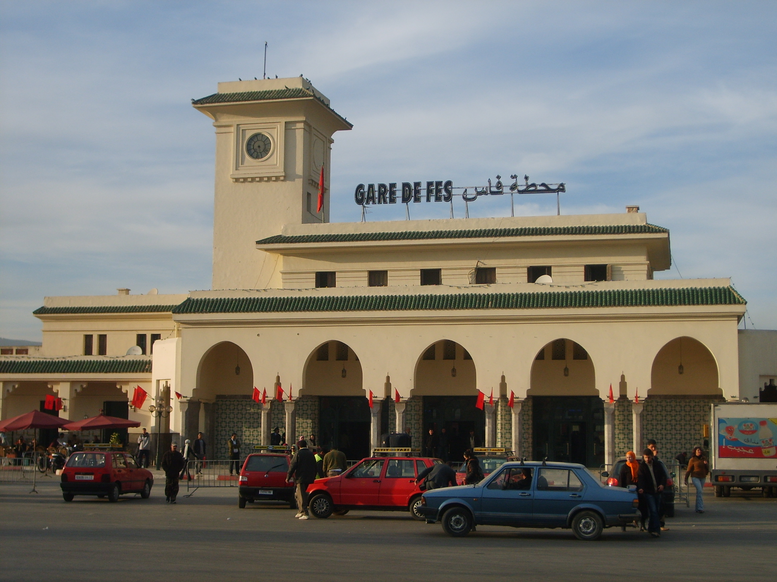 the old Fes Railway Station